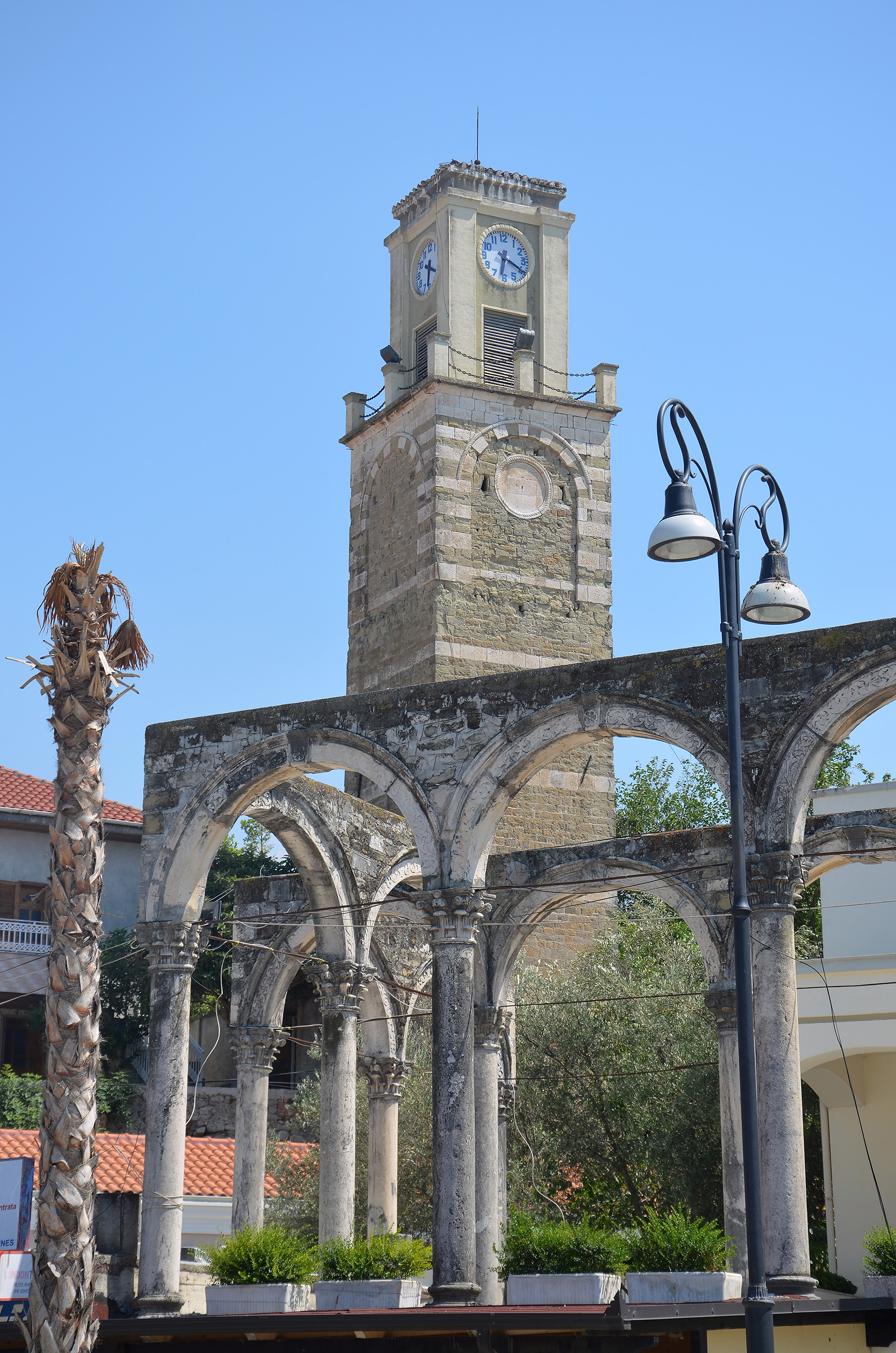 The portico arcade of the Kubelie Mosque and the Watch Tower in Kavajë, Albania